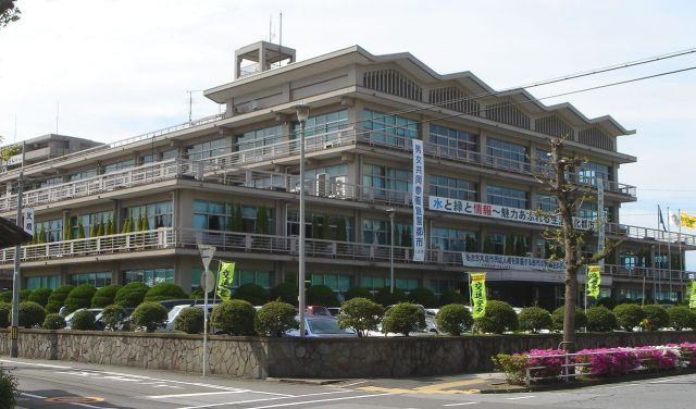 Ogaki City Hall in Gifu Preferture, Japan